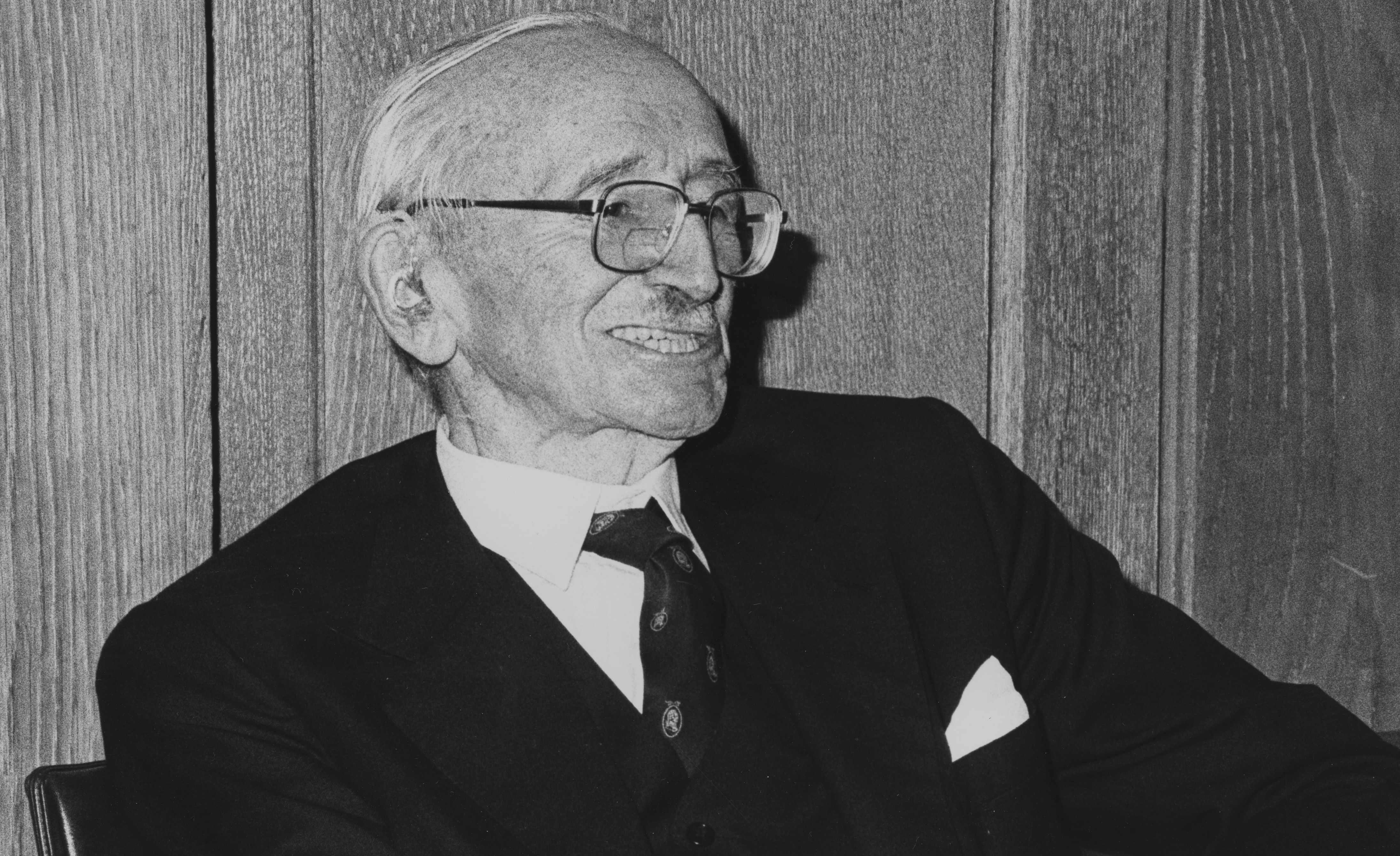 Professor of Economic Science at LSE 1931-1950, won Nobel prize for Economic Sciences in 1974. IMAGELIBRARY/1027 Persistent URL